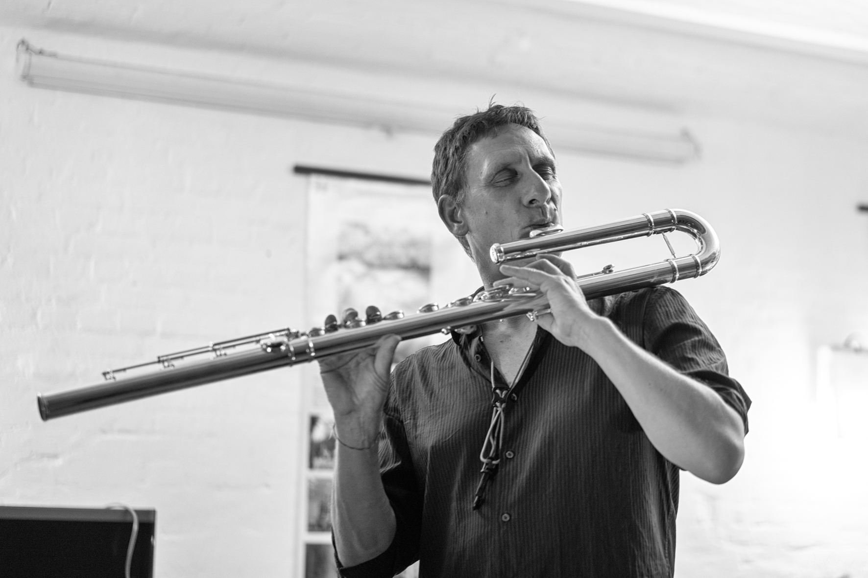 Frank Gratkowski playing solo bass flute Alte Druckerei Ottensen March 2019